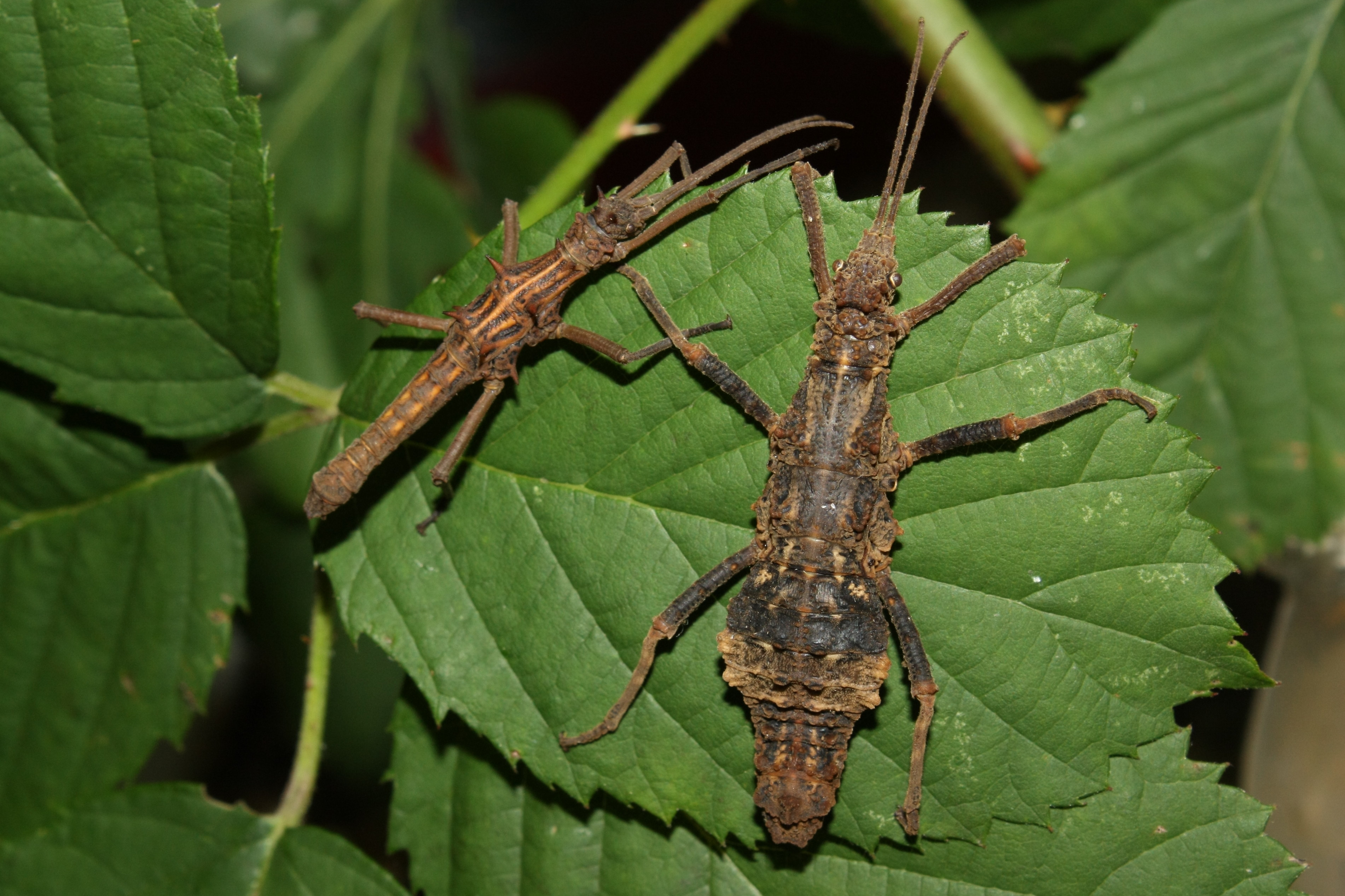 Pair of Dares ulula, left male, right female